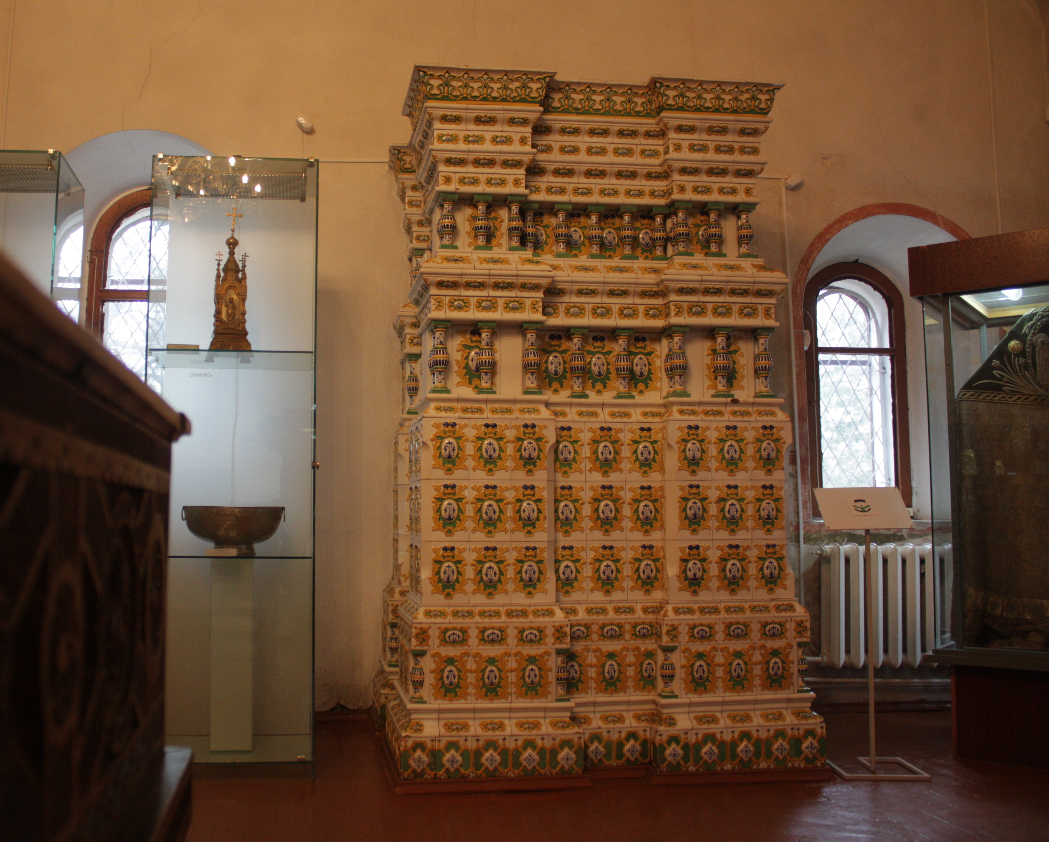 Tiled stove in the palace of Uglich princes